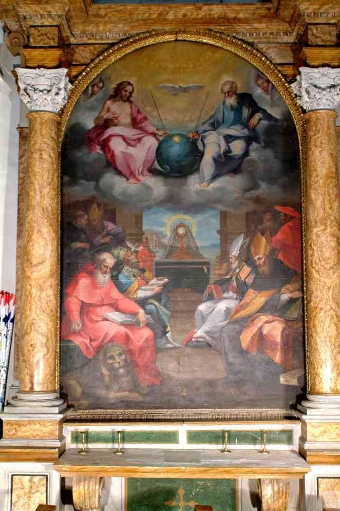 Glorification of the Eucharist by Ventura Salimbeni - The so called UFO or “Sputnik” of Montalcino. This is actually the name so often used by certain sites to refer to the object represented in the church of St. Peter in Montalcino (Siena, Italy), painted at the end of XVI century by Ventura (or Bonaventura) Salimbeni. The sphere between the figures of the Holy Trinity, is not an UFO. That object, painted in many Trinity representations, is a symbol of the "Creation Globe", and in this particular painting contains the illustration of the Sun and the Moon.